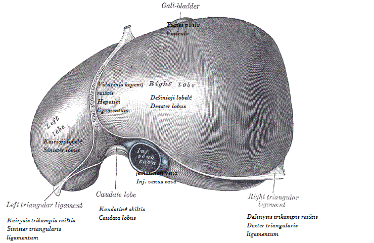 There you can see liver